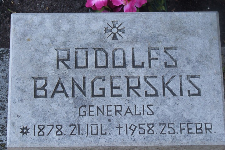 Brothers' Cemetery (Riga), Gravestone of General Rudolfs Bankerskis